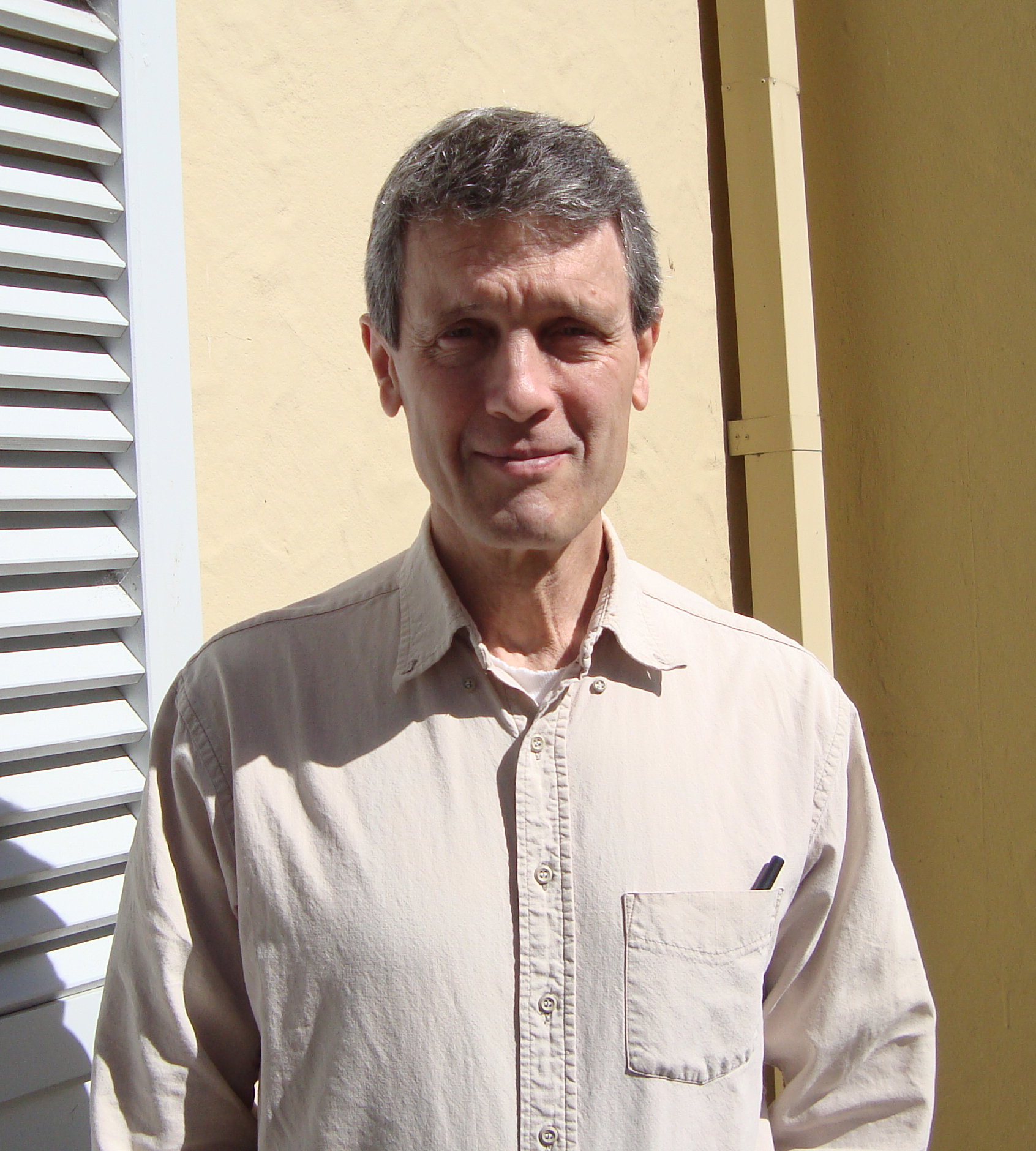 Professor of Mathematics at Yale University Roger Evans Howe during the 2010 NZMRI Summer Workshop on Groups, Representations and Number Theory in Hanmer Springs, New Zealand.